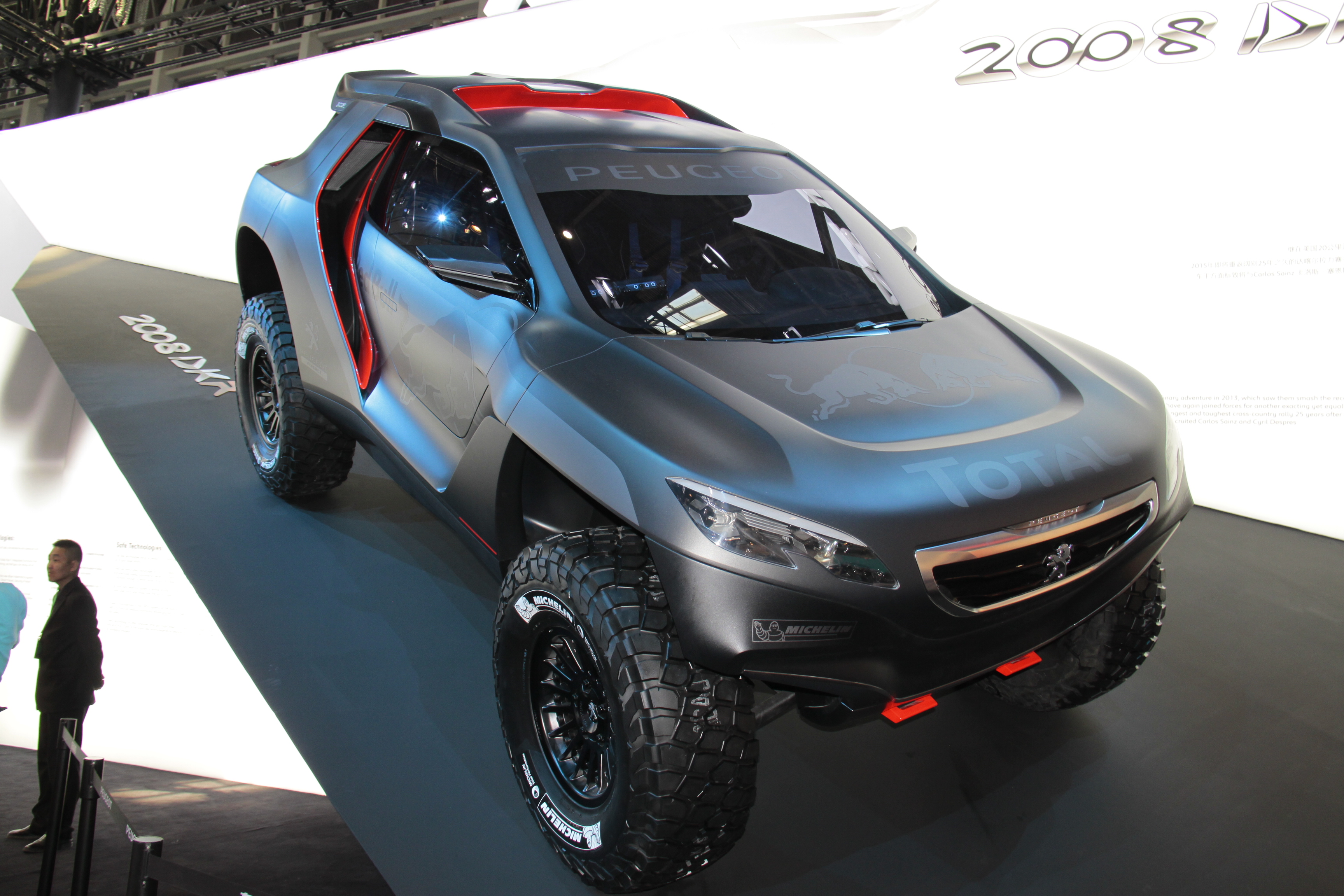 Peugeot 2008 DKR at Auto China 2014 (Beijing)